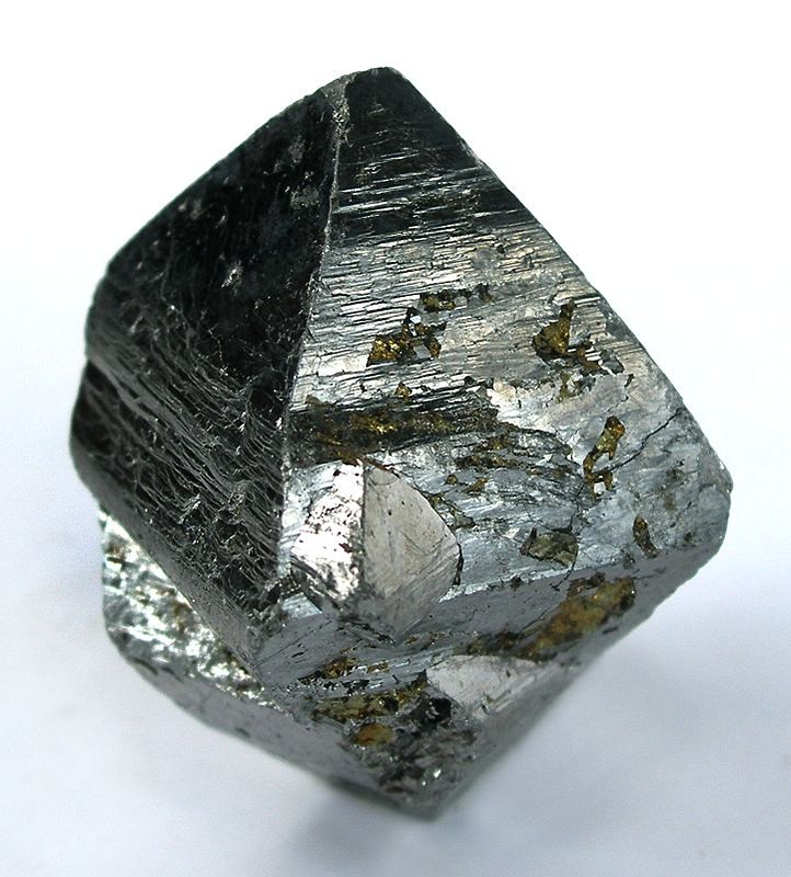 Glaucodot Locality: Håkansboda, Lindesberg, Västmanland, Sweden (Locality at ) Size: 3.3 x 2.7 x 2.6 cm. A remarkable and LARGE, 40-gram crystal of this rare complex iron-cobalt sulfide. It is complete all around except for a contact on the bottom and one small contact or old damage in a 7 x 5 mm edge on one face. It is geometric and very 3-dimensional, displayable from 3 sides thus. Ex. Phillipstad Museum Collection in Sweden (over 50 years ago).